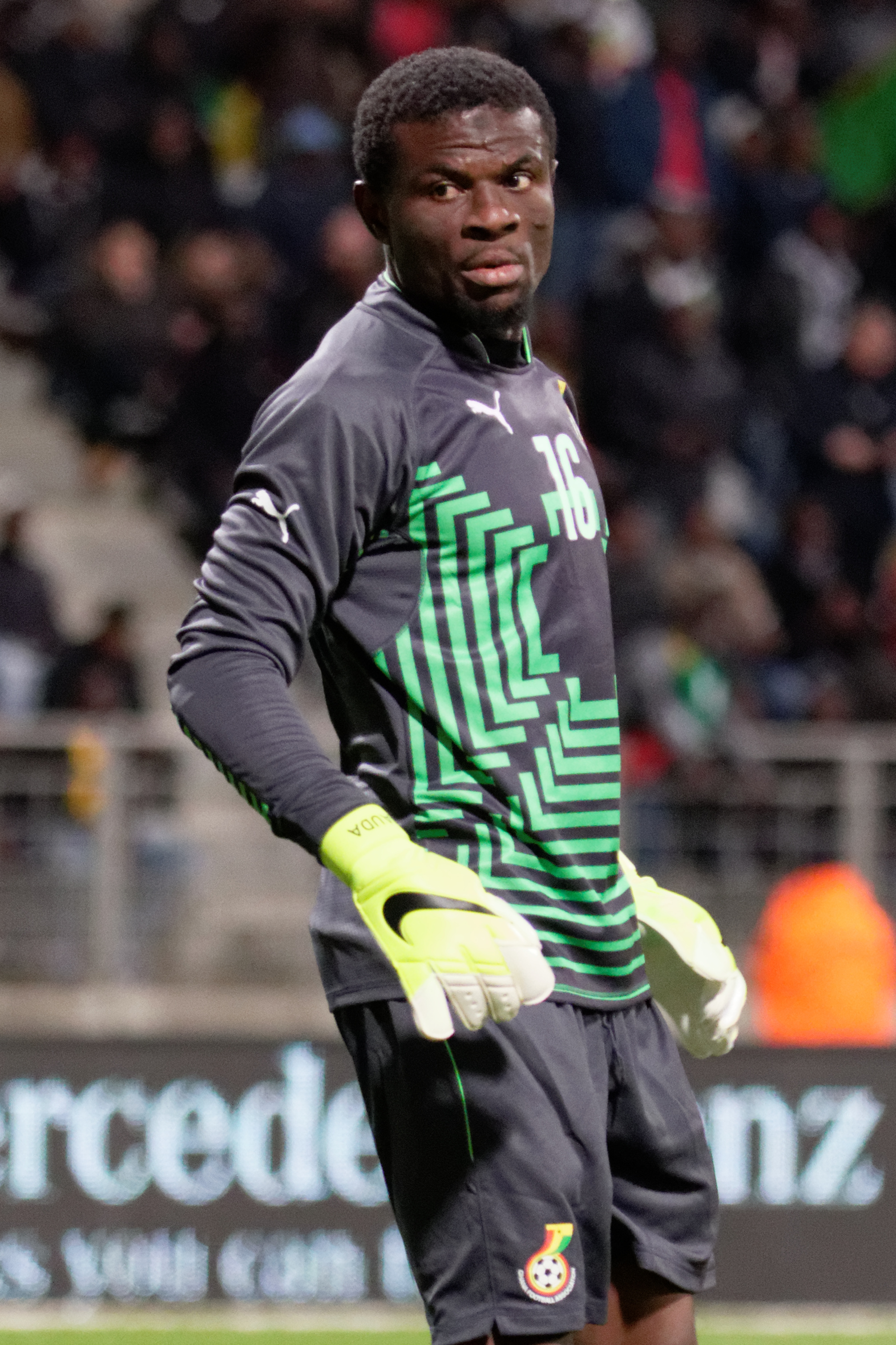 Mali vs Ghana, exhibition game at Paris, 31st March 2015. Fatau Dauda.